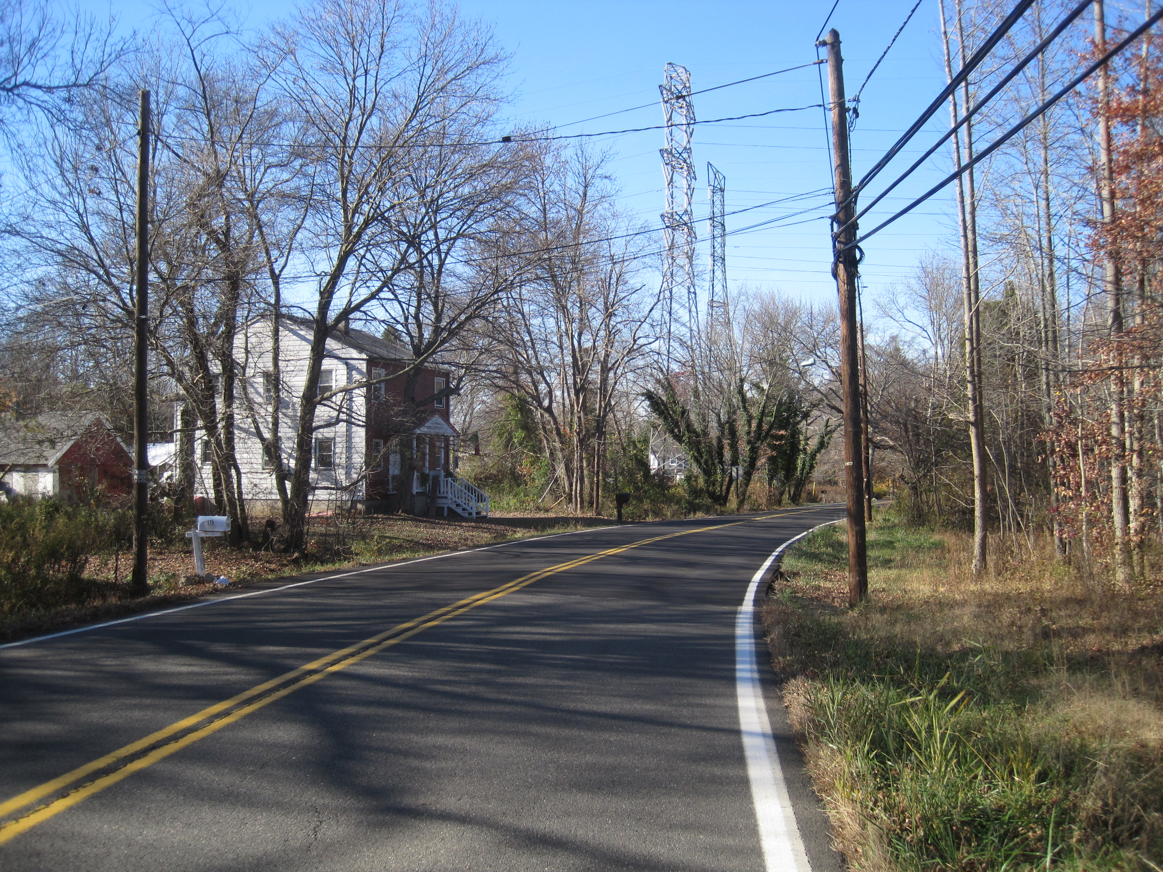 Photo of Cottageville, New Jersey, an unincorporated community within South Brunswick, Middlesex County. Photo taken along westbound Davidson Mill Road.